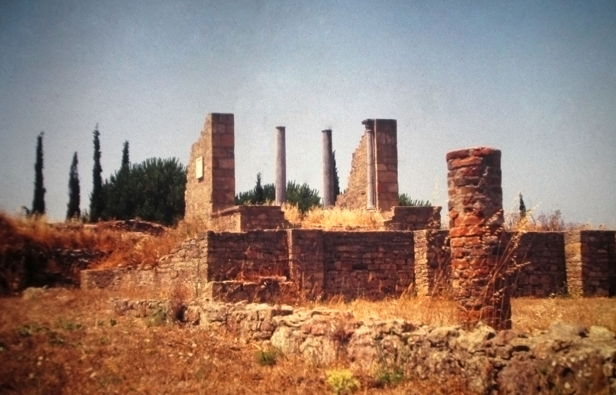 Miróbriga -Temple - Santiago do Cacém - Portugal